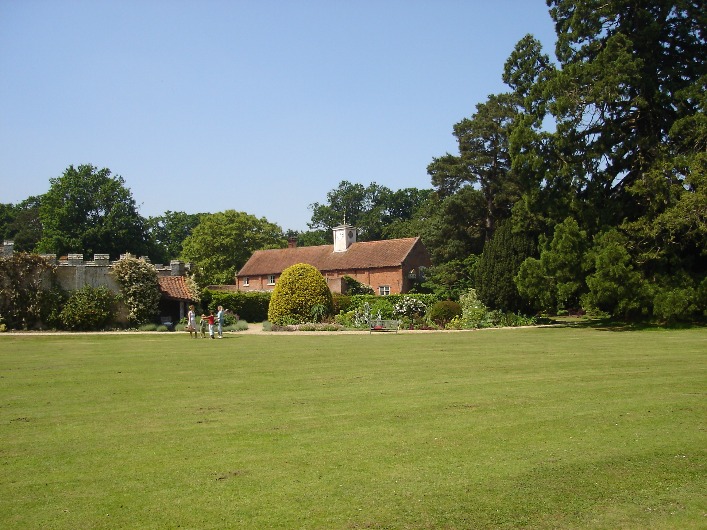 Picture taken at Bolwick Hall, Norfolk